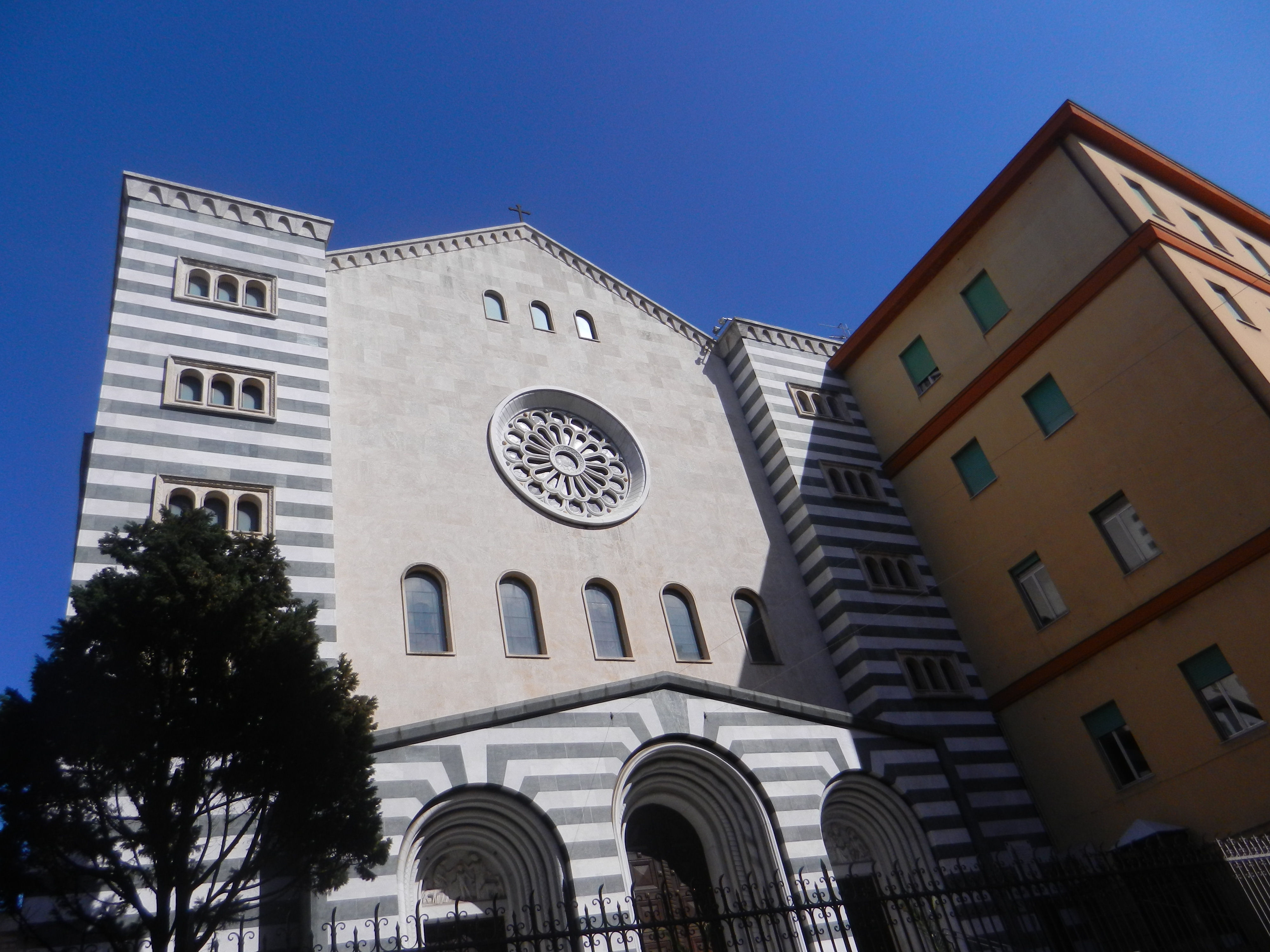 Genoa, Italy, quarter of Sampierdarena, church of Saints Giovanni Bosco and Gaetano